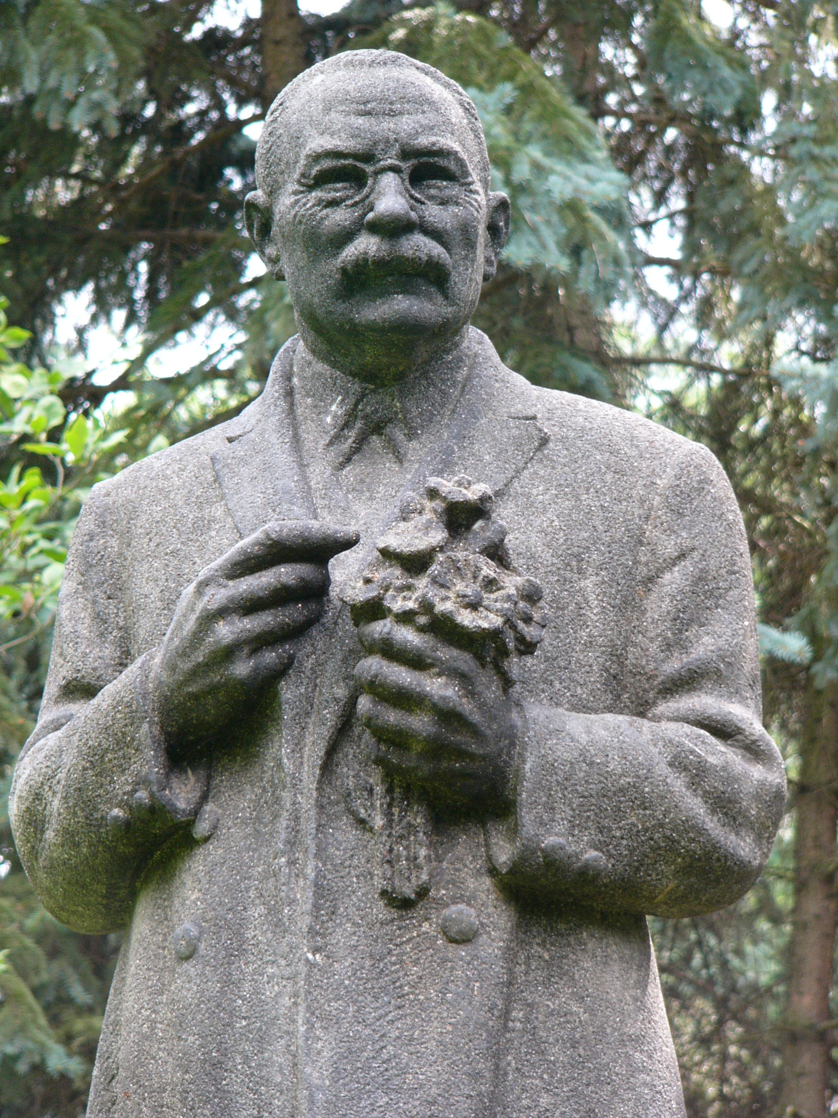 Czech botanist and educator František Polívka (1860-1923) - the statue of diabase (geologic term) = microgabbro (alternative term) ("syenite" is an abbreviated term in the language of masons. This statue is very likely from "Šluknovský syenit" (brand name), that is an diabase.) on the granite base is in Smetanovy sady park in Olomouc. It was made by Julius Pelikán in 1933.[1]